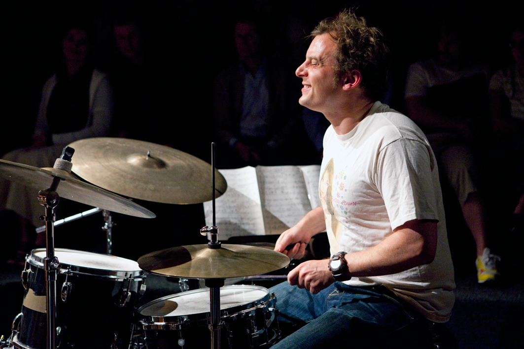 Jochen Rueckert, german jazzmusician, drums, at Altes Pfandhaus, Cologne, 230409